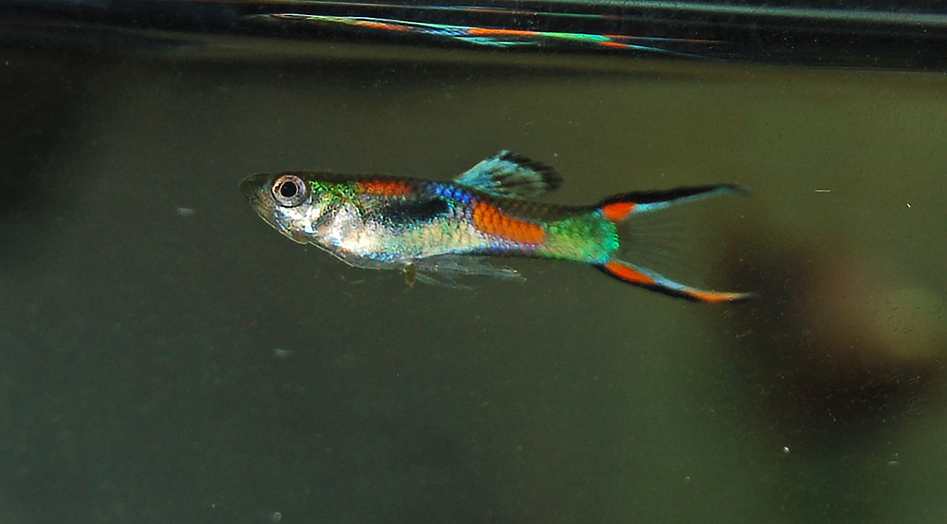 Poecilia wingei male, var. "black bar"